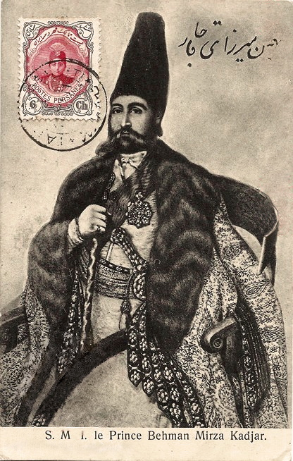 Persian Postcard of Bahman Mirza from the time of Soltan Ahmad Shah.